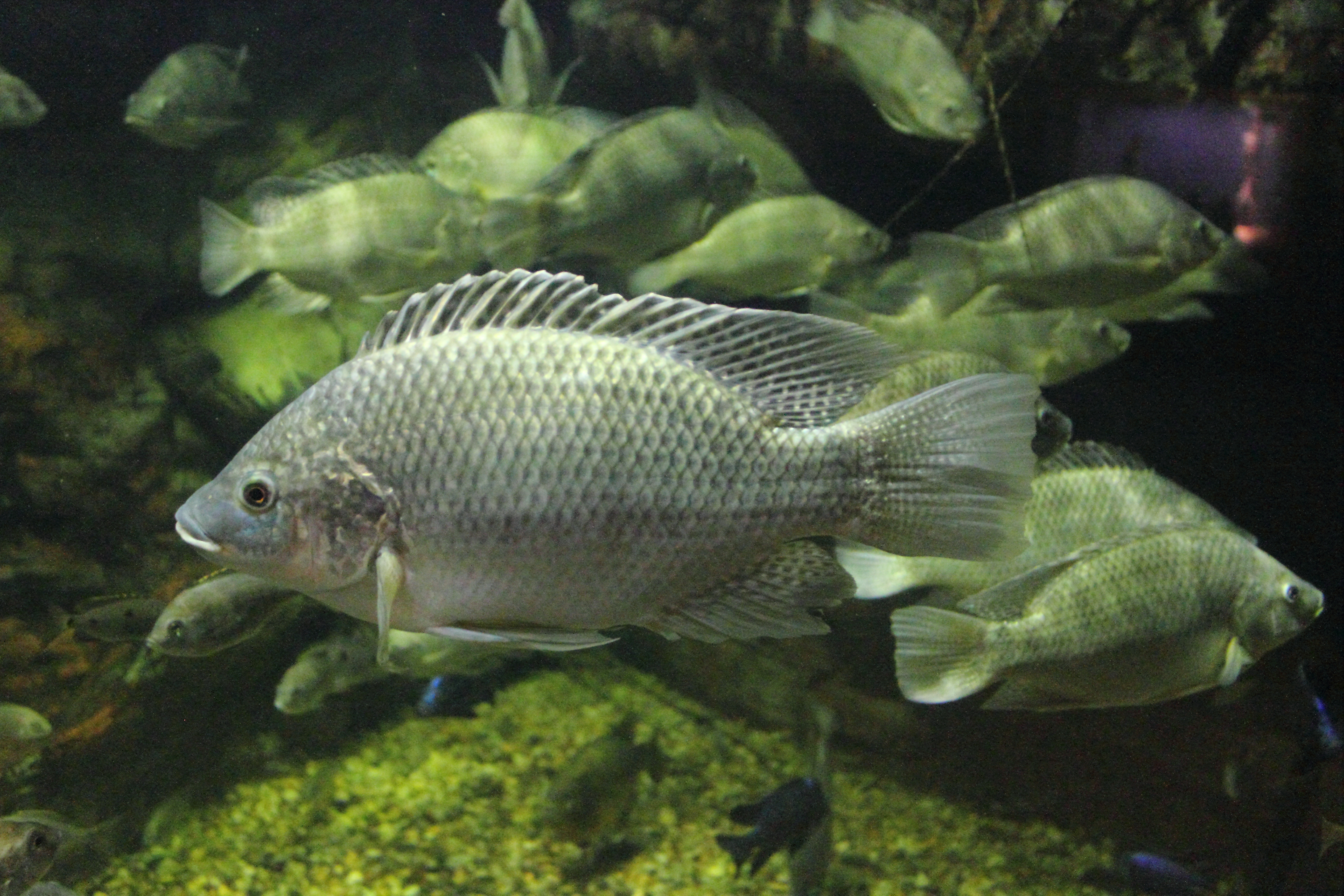 Oreochromis mossambicus or Mozambique Tilapia at the Cincinnati Zoo.